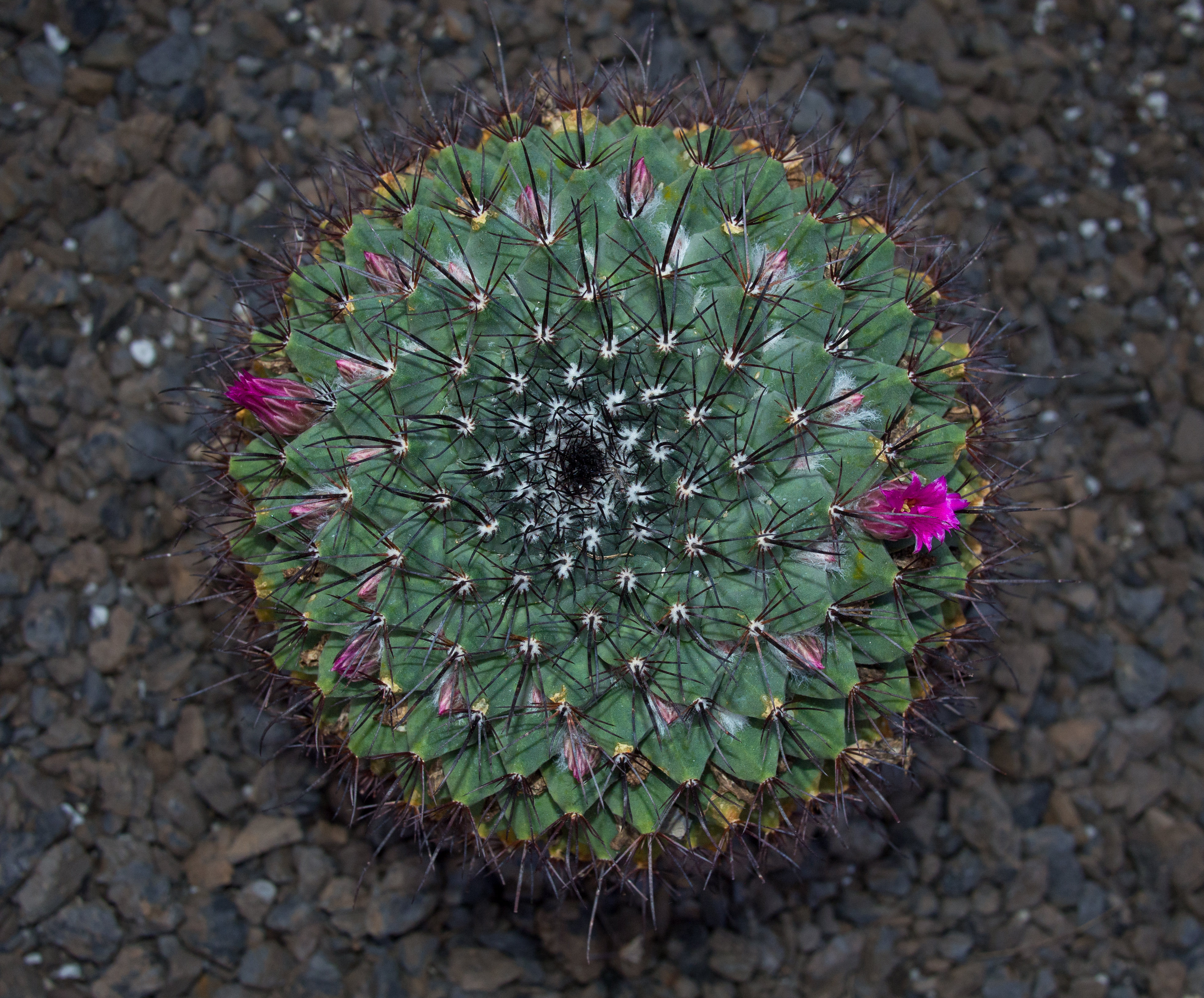 Mammillaria winterae at the New York Botanical Garden.